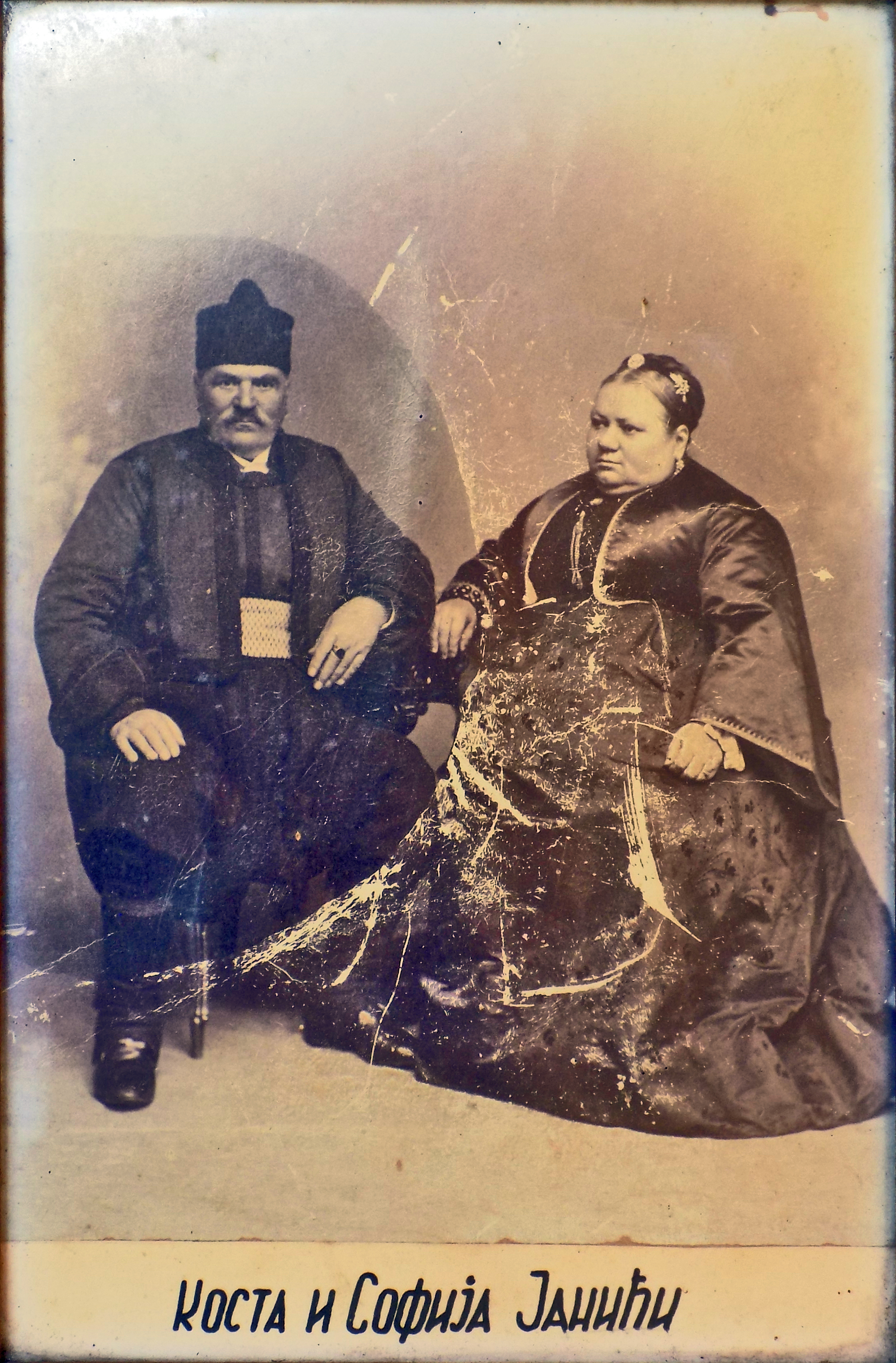 Kosta and Sofija Janić, Ostružnica